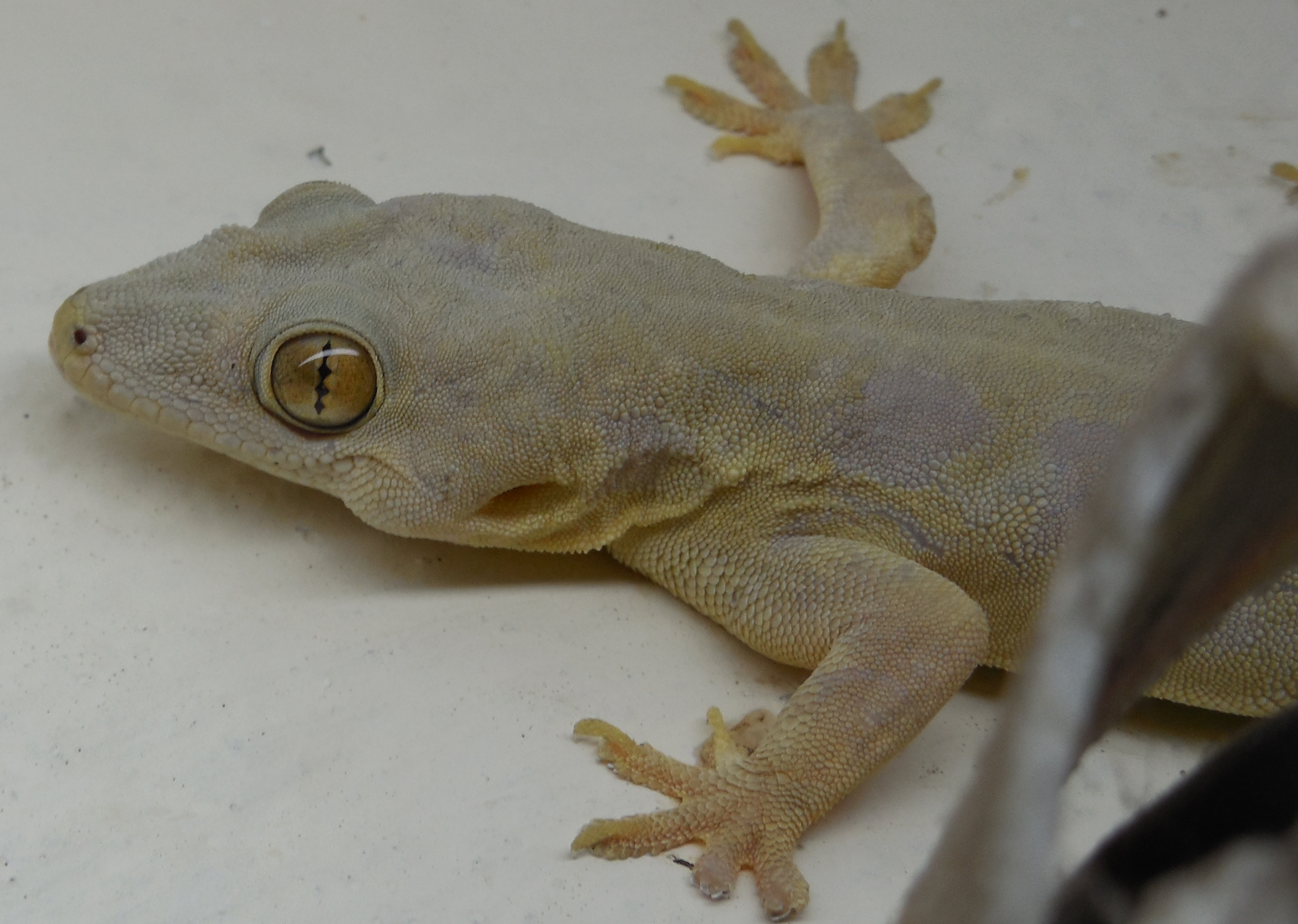 Common Lizard in Chennai, India.